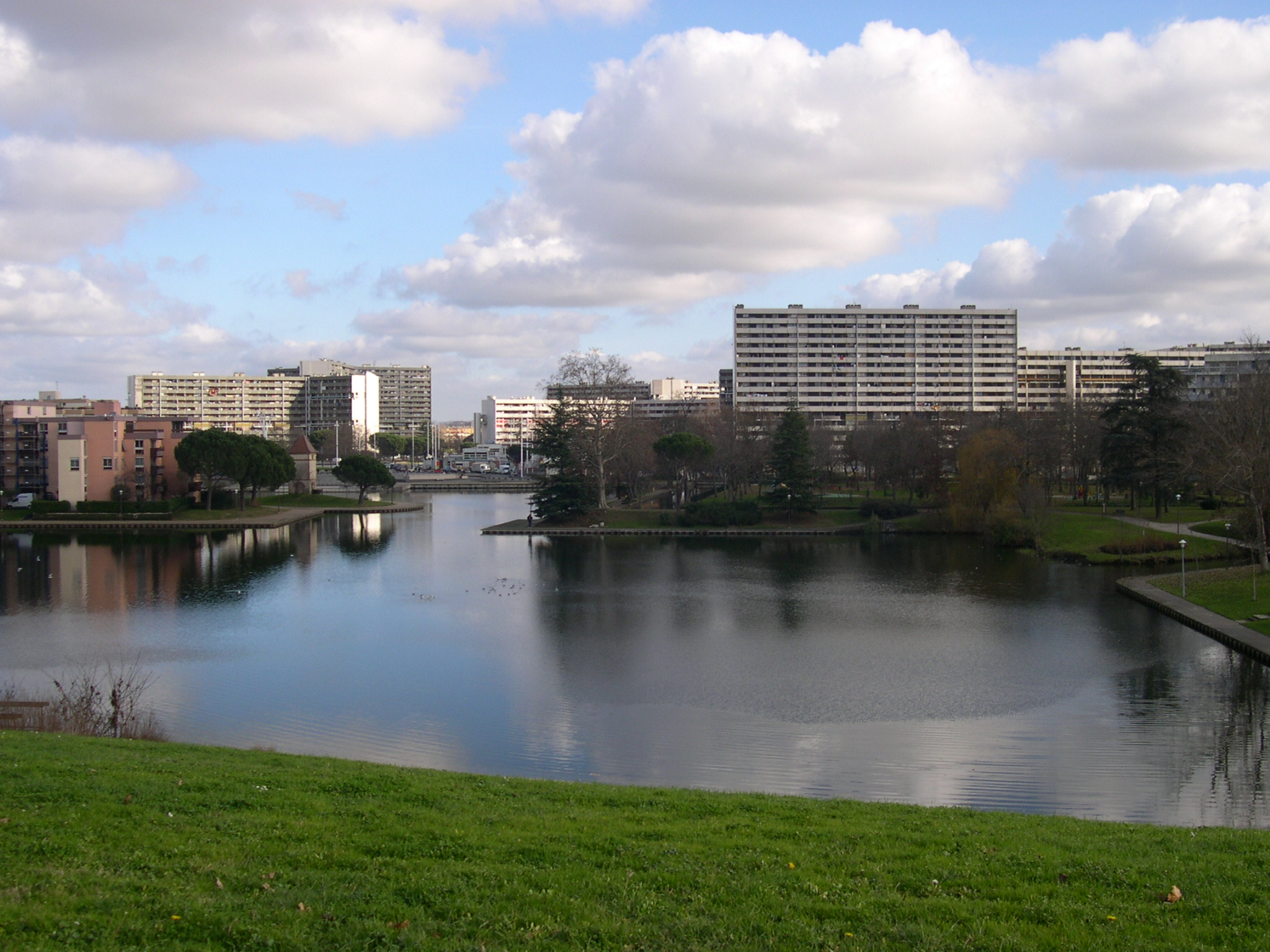 Reynerie district in Toulouse (Haute-Garonne, France).